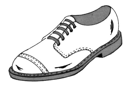 Line art drawing of shoe.